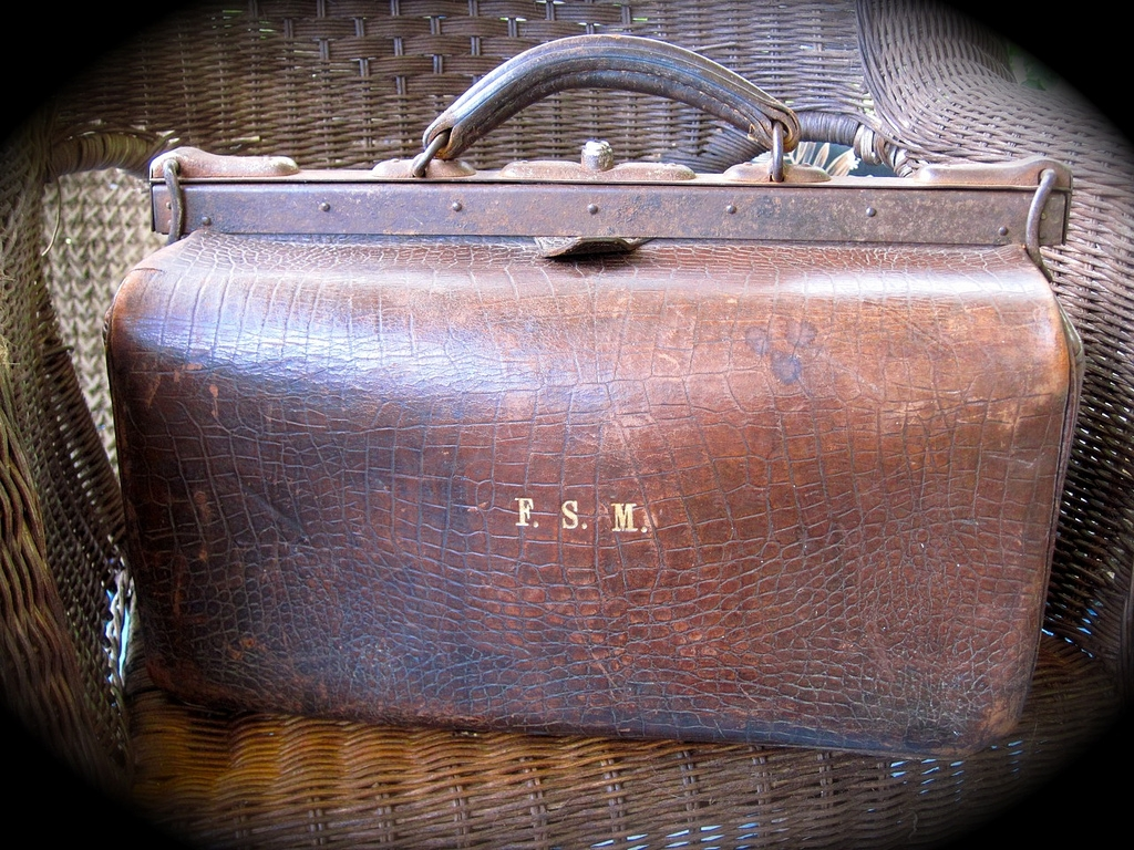 Portmanteau: Ox leather Gladstone bag. Underside marked with "Warranted OX Leather". Length about 16 inches.